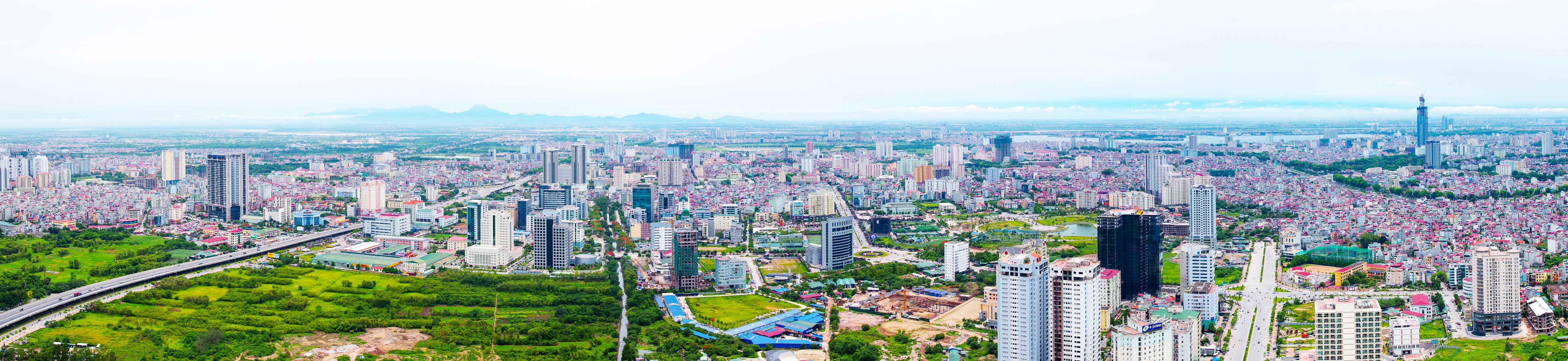 North West Skyline of Hanoi